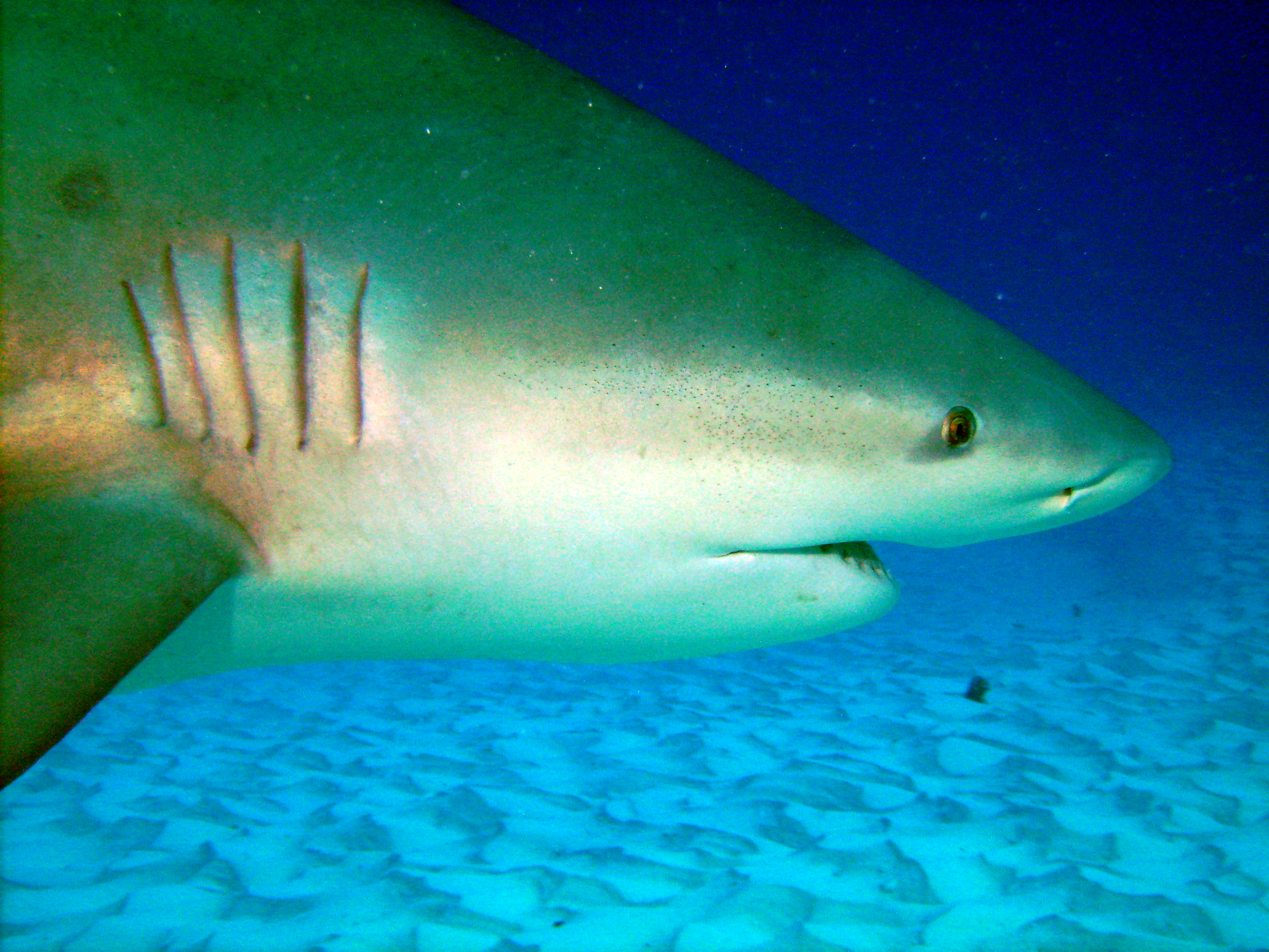 Picture of a bull shark in Playa del Carmen, Mexico.